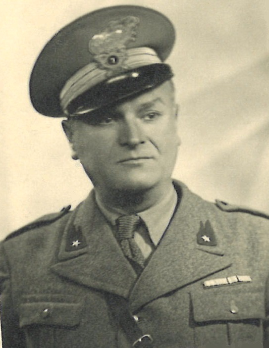 The anti-Nazi Commander Col. Angel Polli